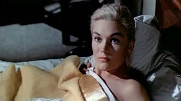 Screenshot from the original 1958 theatrical trailer for the film VertigoFrame taken from MPEG4. Note: This version of the original 1958 theatrical trailer is of significantly lower quality than the 1996 restoration theatrical trailer.